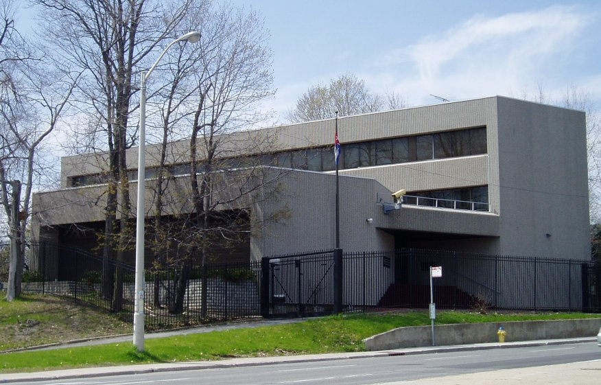 Taken by SimonP in June 2005